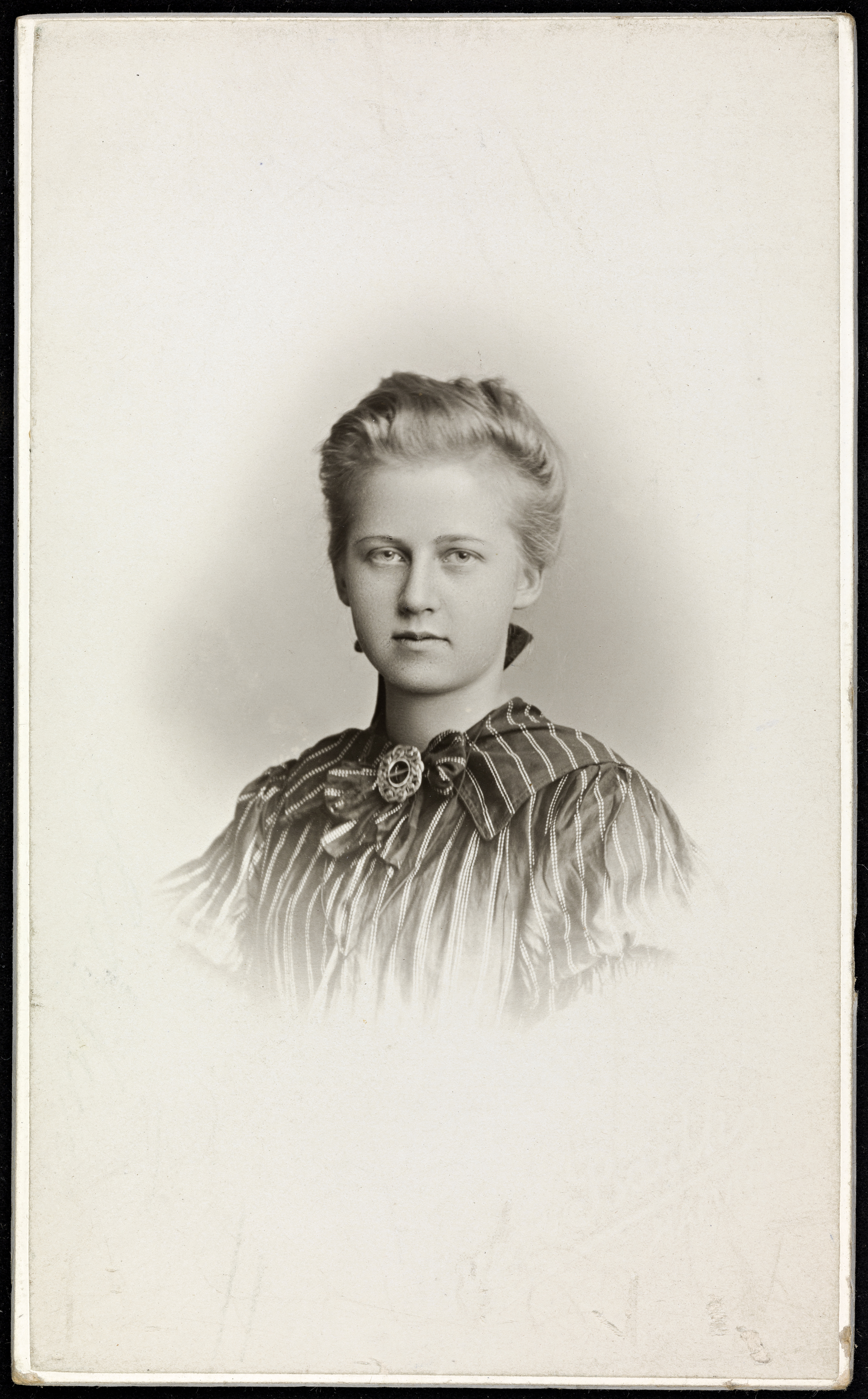 Beskrivelse / Description: Visittkort. Pauline Hall var komponist og skribent. Dato / Date: ukjent / unknown Sted / Place: Hedmark, Hamar Fotograf / Photographer: Inger Barth (1858–1952) DescriptionNorwegian photographerDate of birth/death 21 August 1858 1952 Authority control : Q58175575 KulturNav: f423b91e-4b2c-491a-8ae4-b59fff100ee5 creator QS:P170,Q58175575 Digital kopi av original / Digital copy of original: s/h papirpositiv Eier / Owner Institution: Nasjonalbiblioteket / National Library of Norway Lenke / Link: Bildesignatur / Image Number: blds_06005